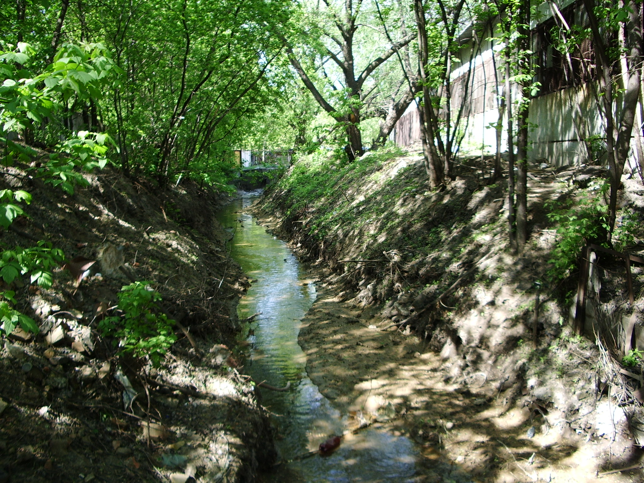 Khodynka brook in eponymous area of Moscow